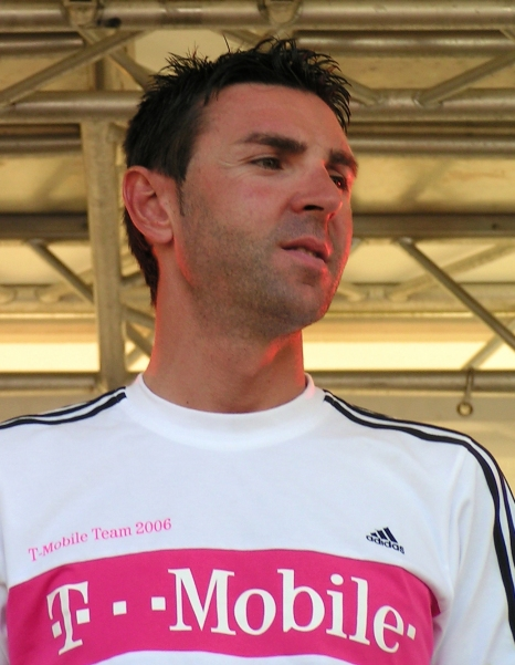 The Italian racing cyclist Eddy Mazzoleni at the team presentation for the Deutschland Tour 2006 in Düsseldorf, Germany.